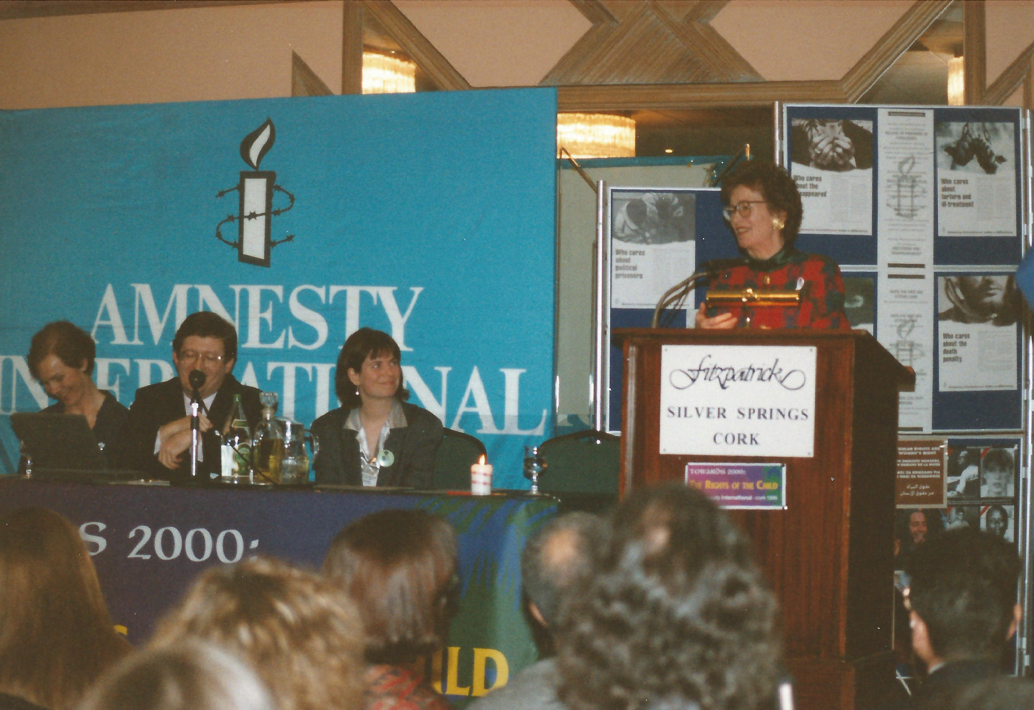 President of Ireland, Mary Robinson, at Amnesty International Ireland Conference, Silver Springs Hotel, Cork, County Cork, February 1996